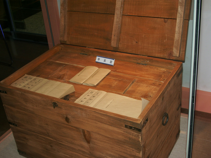 For a background of the April Revolution, please read the following Wikipedia article: A replica of the ballot box used in the rigged presidential elections of 15 March 1960. There were two separate ballots, one for the President (with Syngman Rhee running for the fourth term) and one for the Vice President. Each candidate is listed by number. Candidate No. 1 is the candidate from the political party with the most representation in the National Assembly, and the numbers go up in decreasing number of National Assembly seats. Independents get the highest numbers. This system provides a built-in advantage for the ruling party, and continues to be used today.